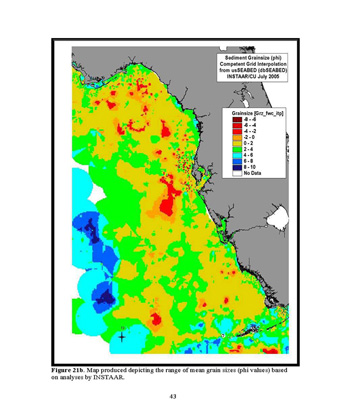 Mean soil grain sizes over a set topographical area.